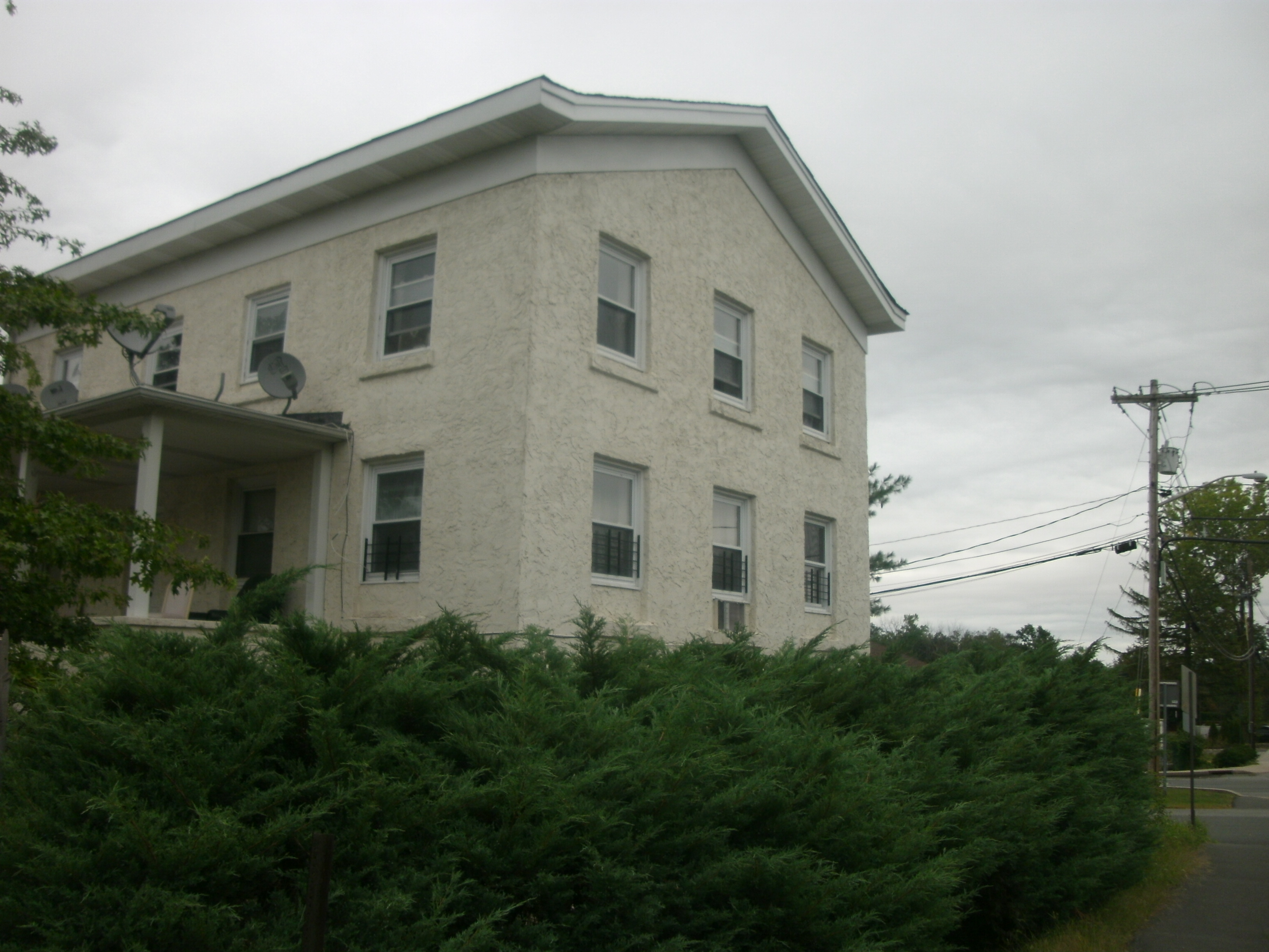 Bardonia station on the Erie Railroad New City Branch on September 11, 2011.